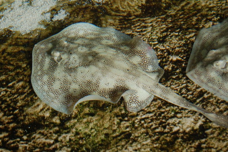 Yellow stingrays (Urobatis jamaicensis) at the Mote Marine Aquarium